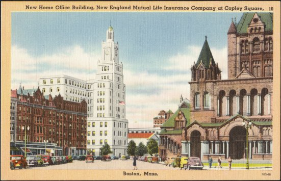 Sample of a postcard issued by the Tichnor Brothers firm of Boston, Mass. Confirmed via email that the cards were published without a copyright notice, and are therefore public domain in the USA.